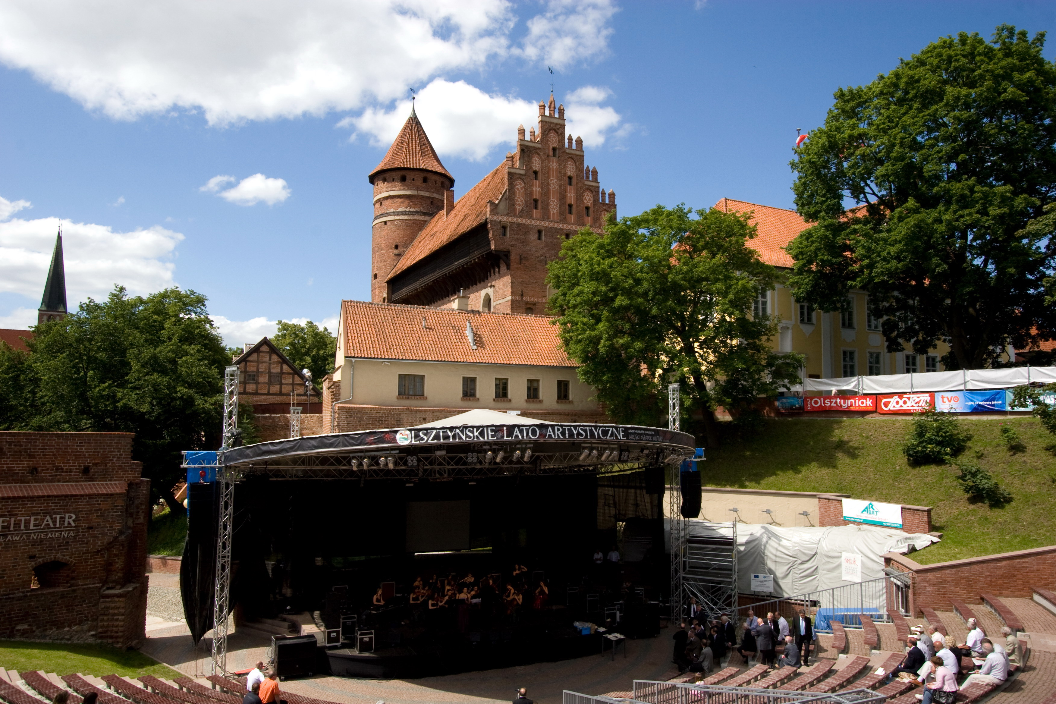 The amphitheater in Olsztyn - a place in Olsztyn where most events of cultural festival take place